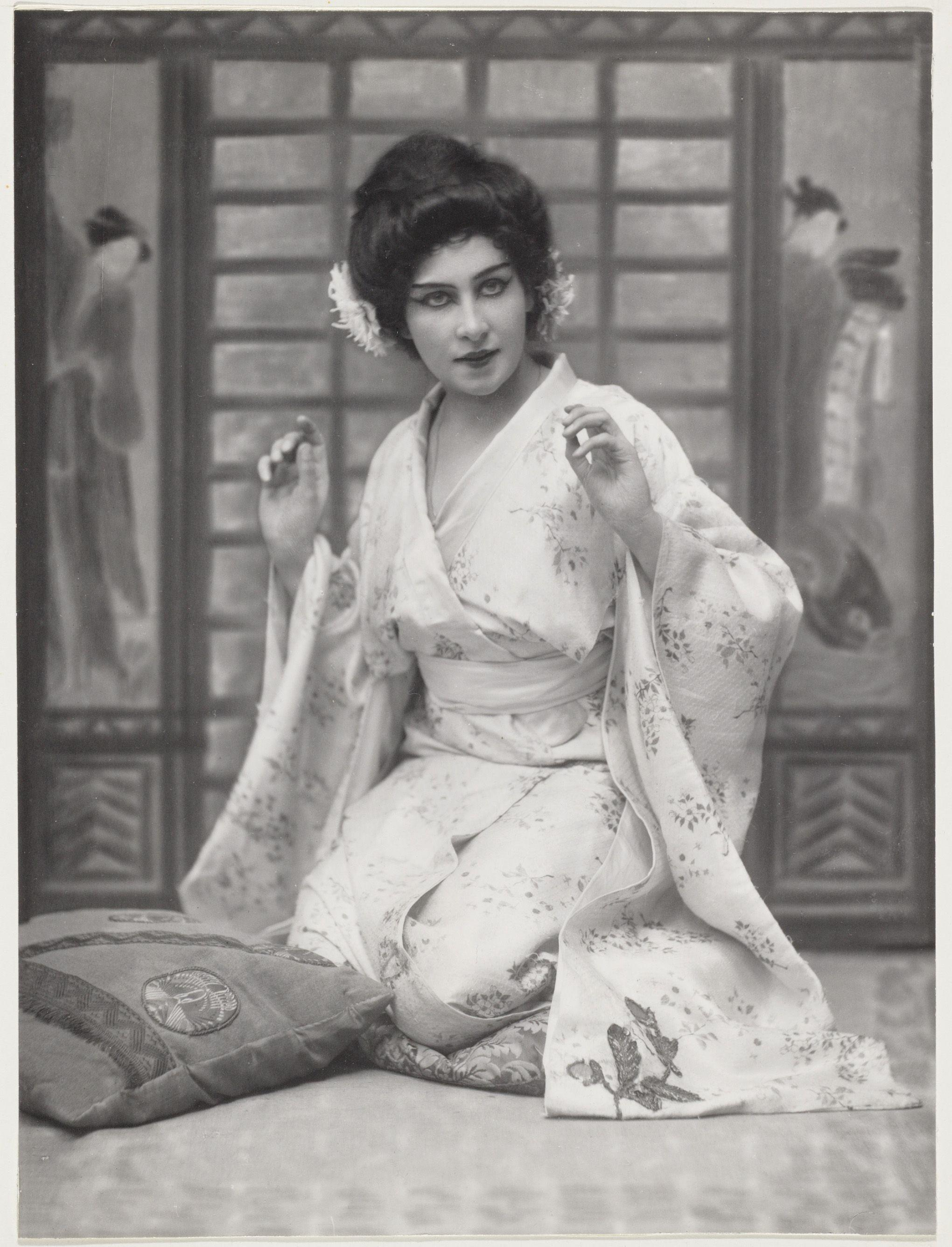 Photograph of opera singer Annie Ligthart as Madame Butterfly by Jacob Merkelbach (1877-1942)